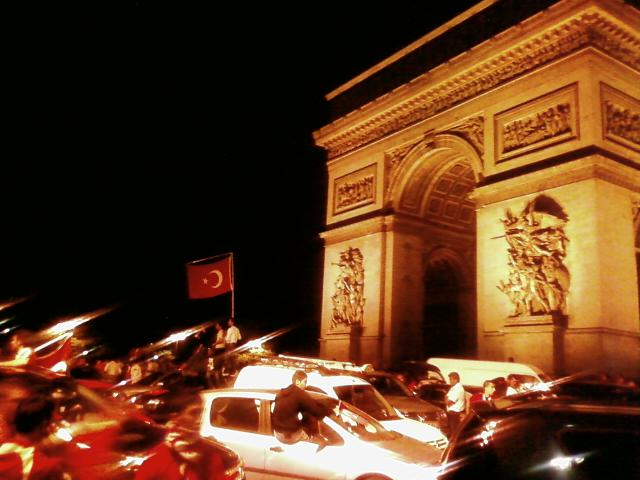 Turkey fans in France, after Croatia match in 20 June 2008.